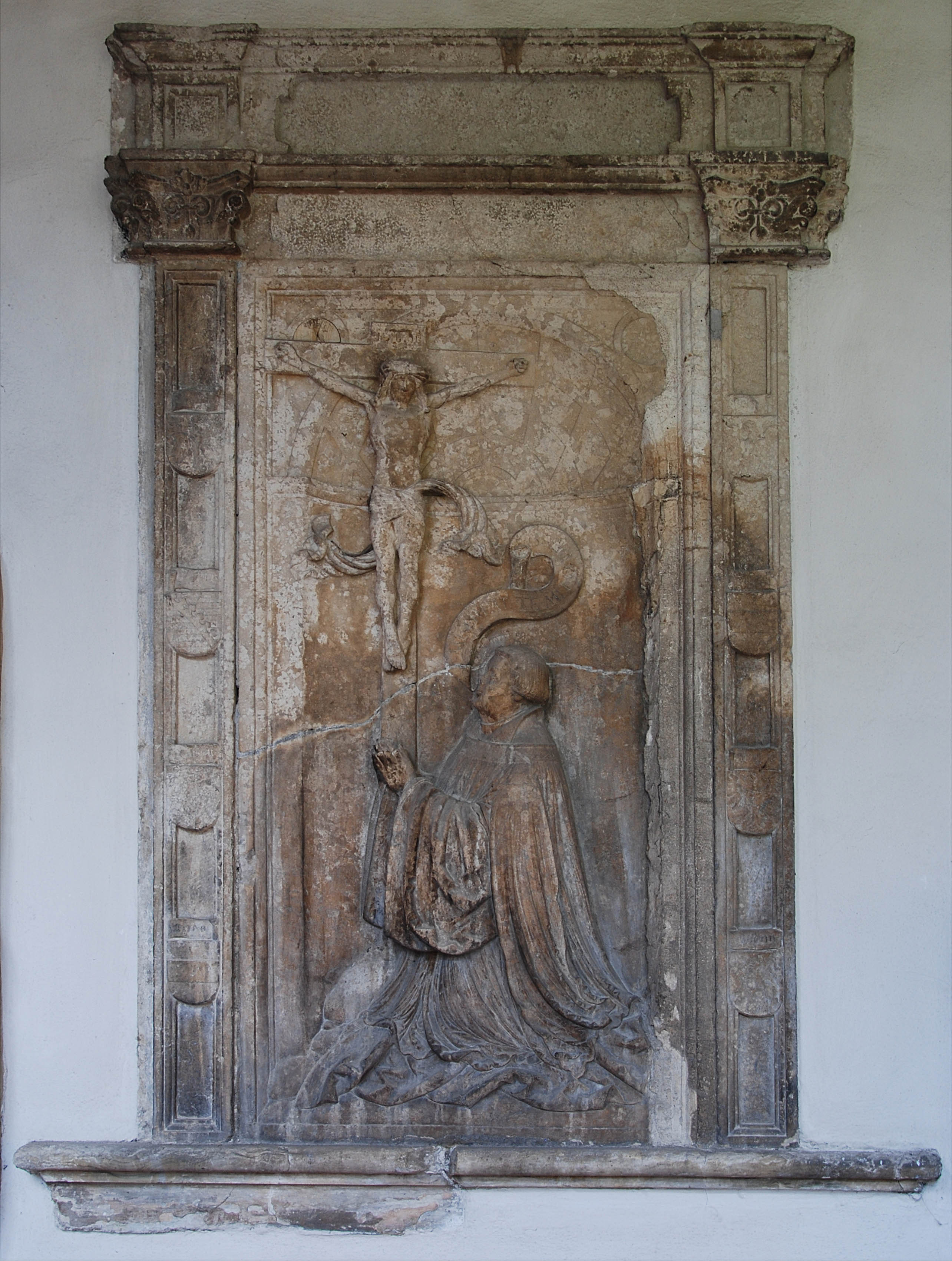 Friedrich von Brandenburg-Ansbach (1497–1536) Wurzburg Dom